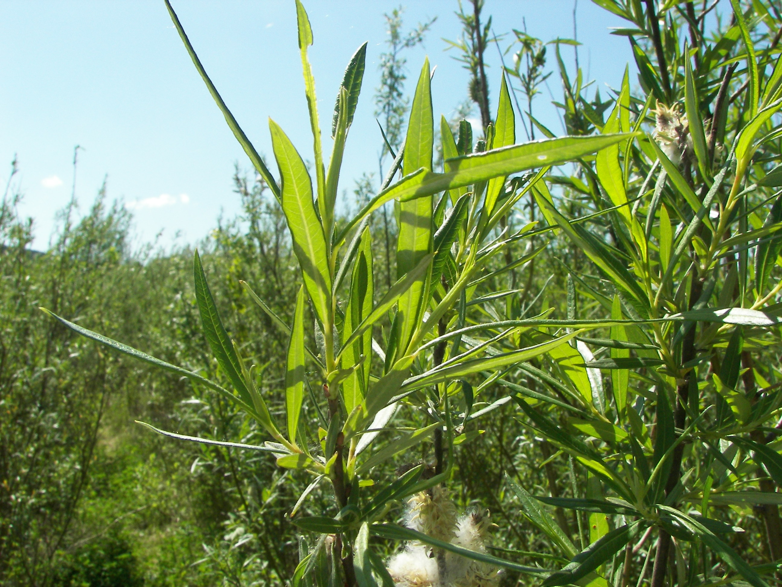 Common Osier (Salix viminalis), leaves, Location: Lahntal-Goßfelden, Hesse, Germany